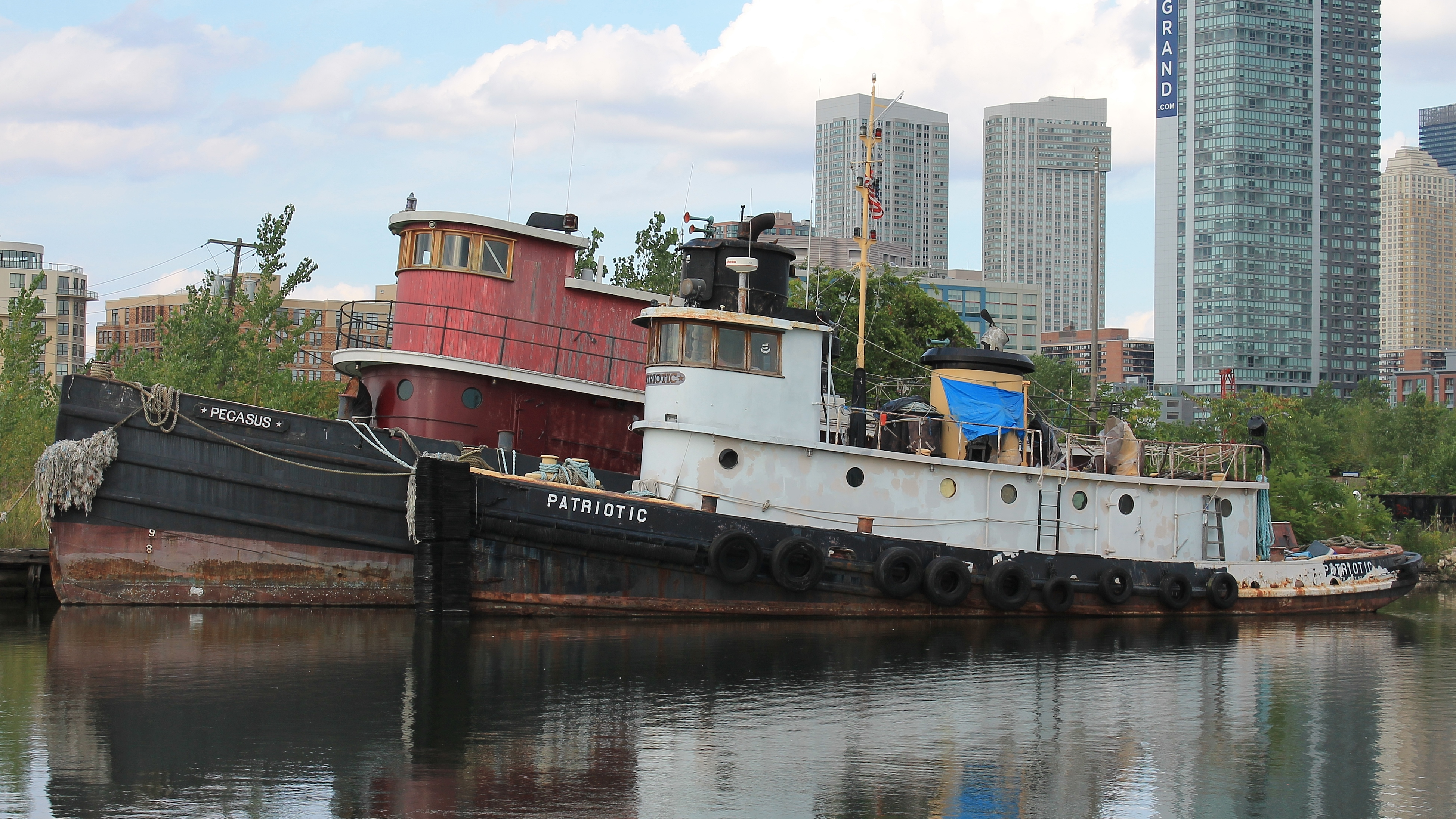 Tugboats Pegasus and Patriotic moored in Morris Canal Basin, Jersey City, New Jersey.